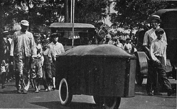 Dayton, OH, McCook Field, 1921. Demonstration of a Radio Controlled Car built by Captain R. E. Vaugh of RCA. Eight feet long, cigar shaped, with three tires. The car was unmanned with Vaughn controlling it wirelessly via radio in a manned vehicle a short distance behind. The car wound its way through city streets, slowed for traffic and honked its horn.